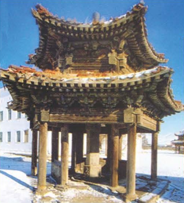 Old picture of the Tuuhiin Sum (History Temple) of the Dambadarjaalin monastery in Dari Ekh, Sukhbaatar District, Ulaanbaatar, Mongolia. It dates to 1765. The stele with Mongolian writing still survives.